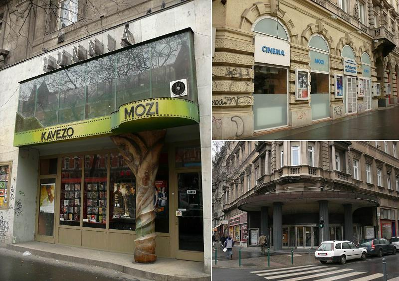 The Erzsébet Boulevard in Budapest